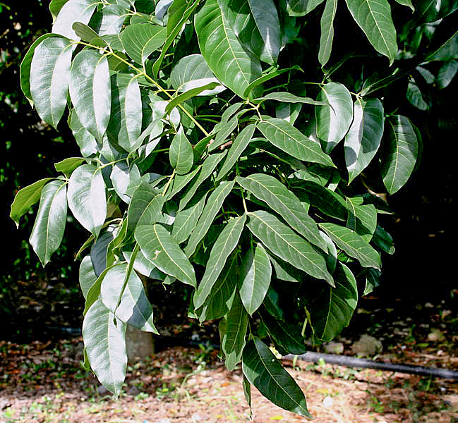 Large-leaved Mahogany Swietenia macrophylla in Kolkata, West Bengal, India.